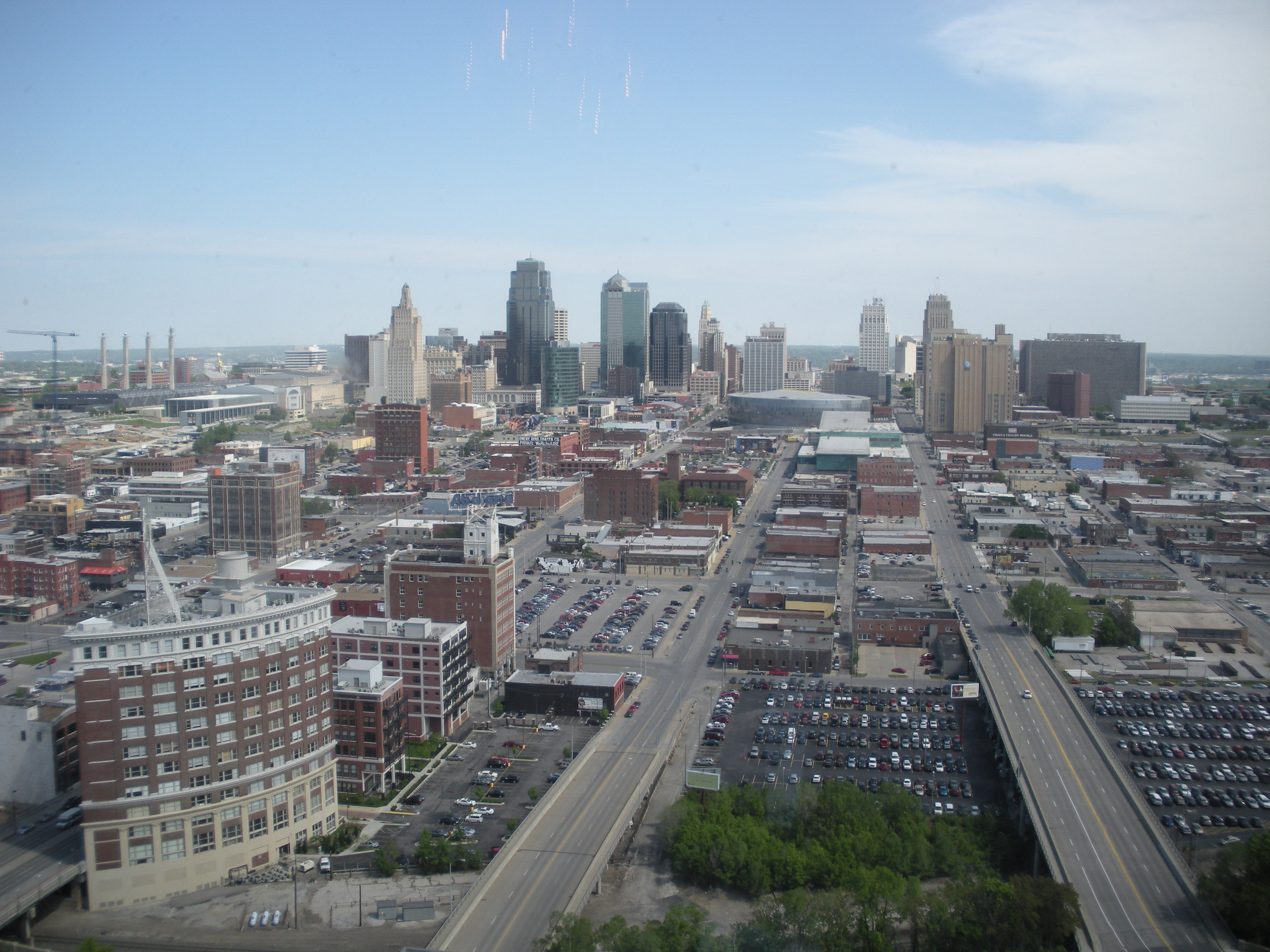 Photos from Kansas City, Missouri, 2008, Kansas City skyline